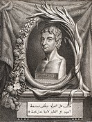 Plate depicting Thomas Hyde in Syntagma dissertationum quas olim Thomas Hyde separatim edidit by Gregory Sharpe, 1767